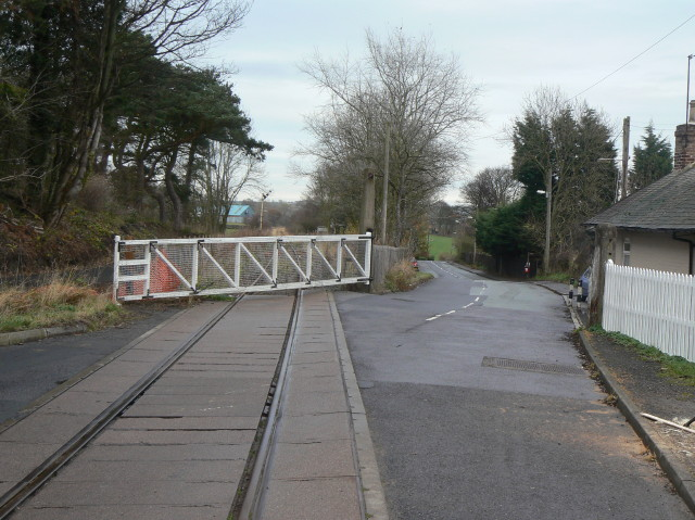 Witton-le Wear level crossing The station used to be just to the left of the crossing but has disappeared without trace.